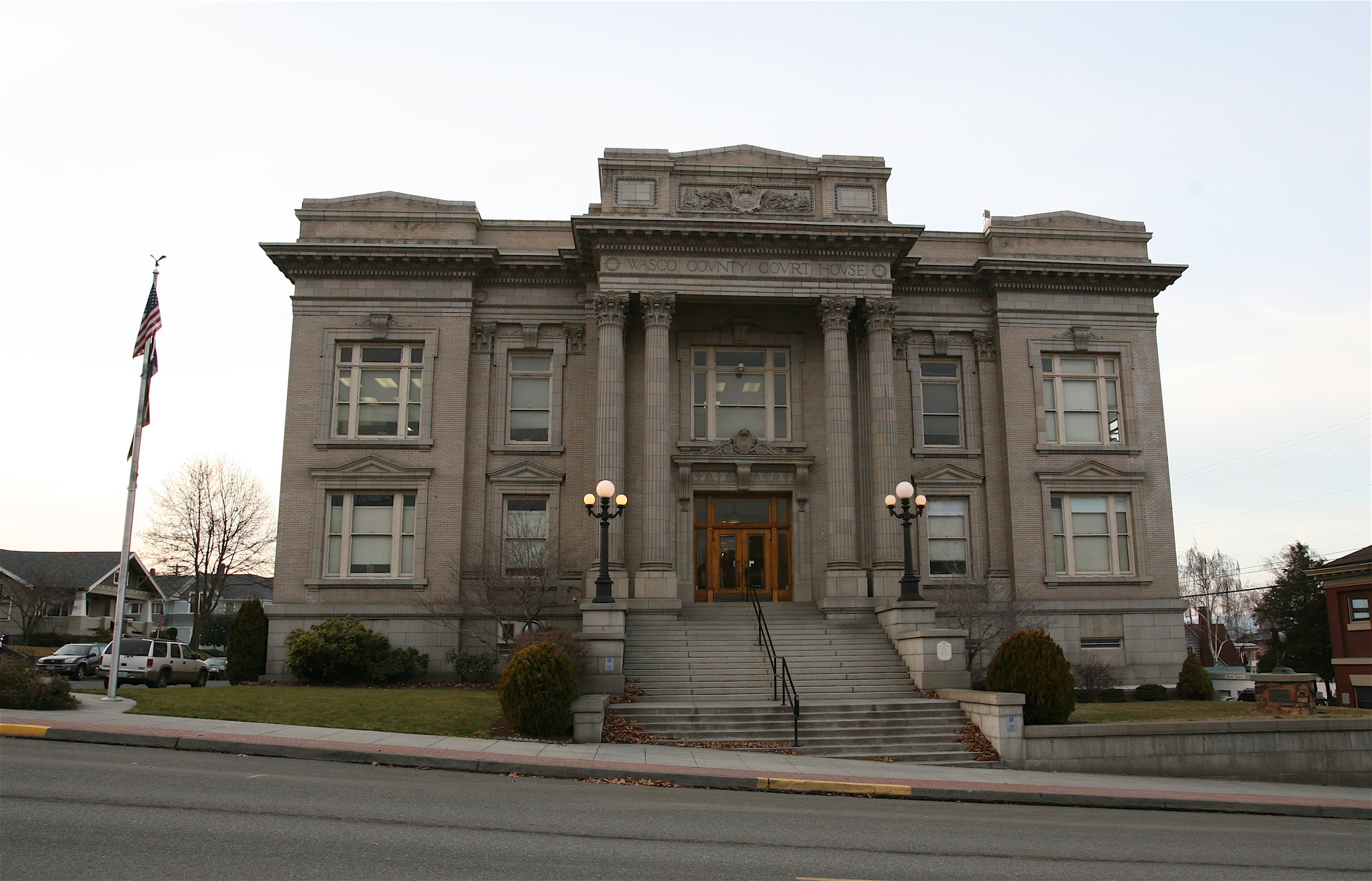 Wasco County Courthouse in The Dalles, Oregon.